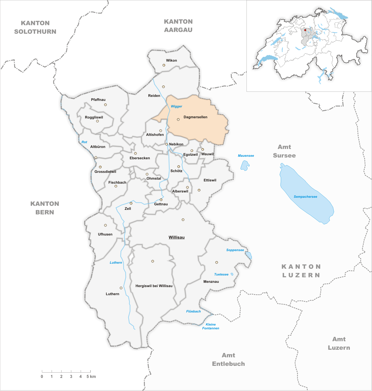 Municipality Dagmersellen